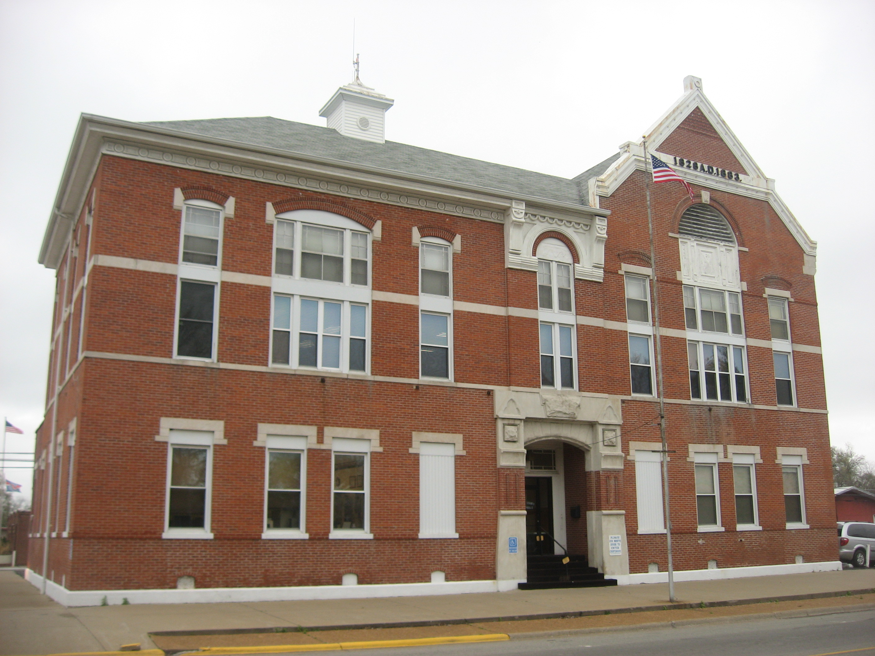 Front and western side of the White County Courthouse, located at 305 E. Main Street in Carmi, Illinois, United States. It was built in 1883.